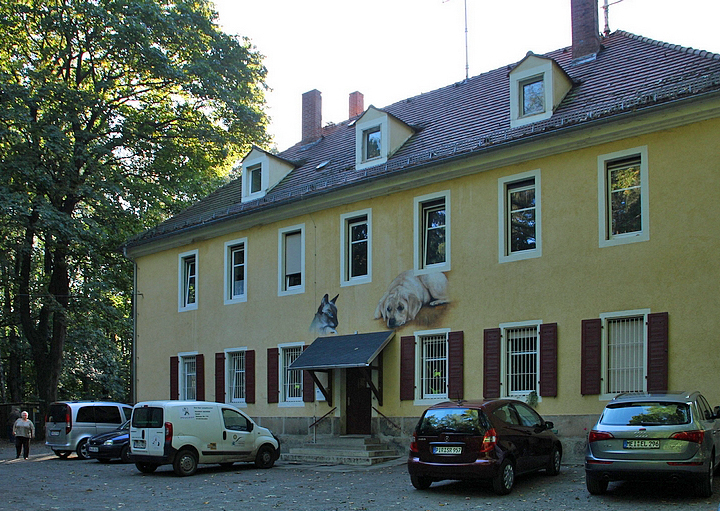 Depot and administration building of the 412 m deep coal mine Windbergschacht on top of the Windberg (353 m) in Freital (1845–1881); last remnant of a once large colliery; now used as animal shelter.